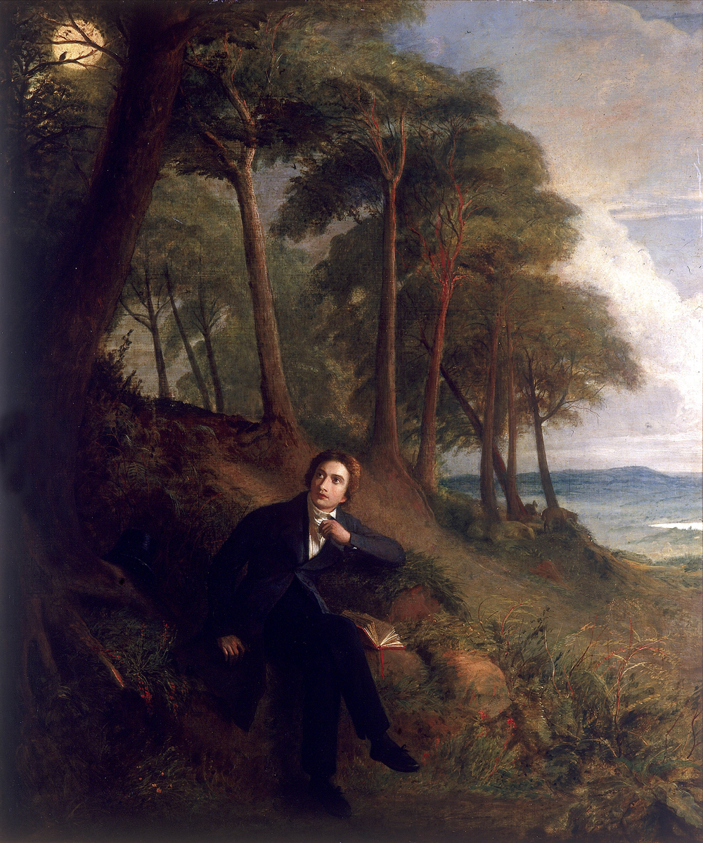 A painting created by Joseph Severn in 1845; it depicts the poet John Keats resting in Hampstead Heath while he listens to a hummingbird. Severn, Joseph; Keats Listening to a Nightingale on Hampstead Heath; City of London Corporation